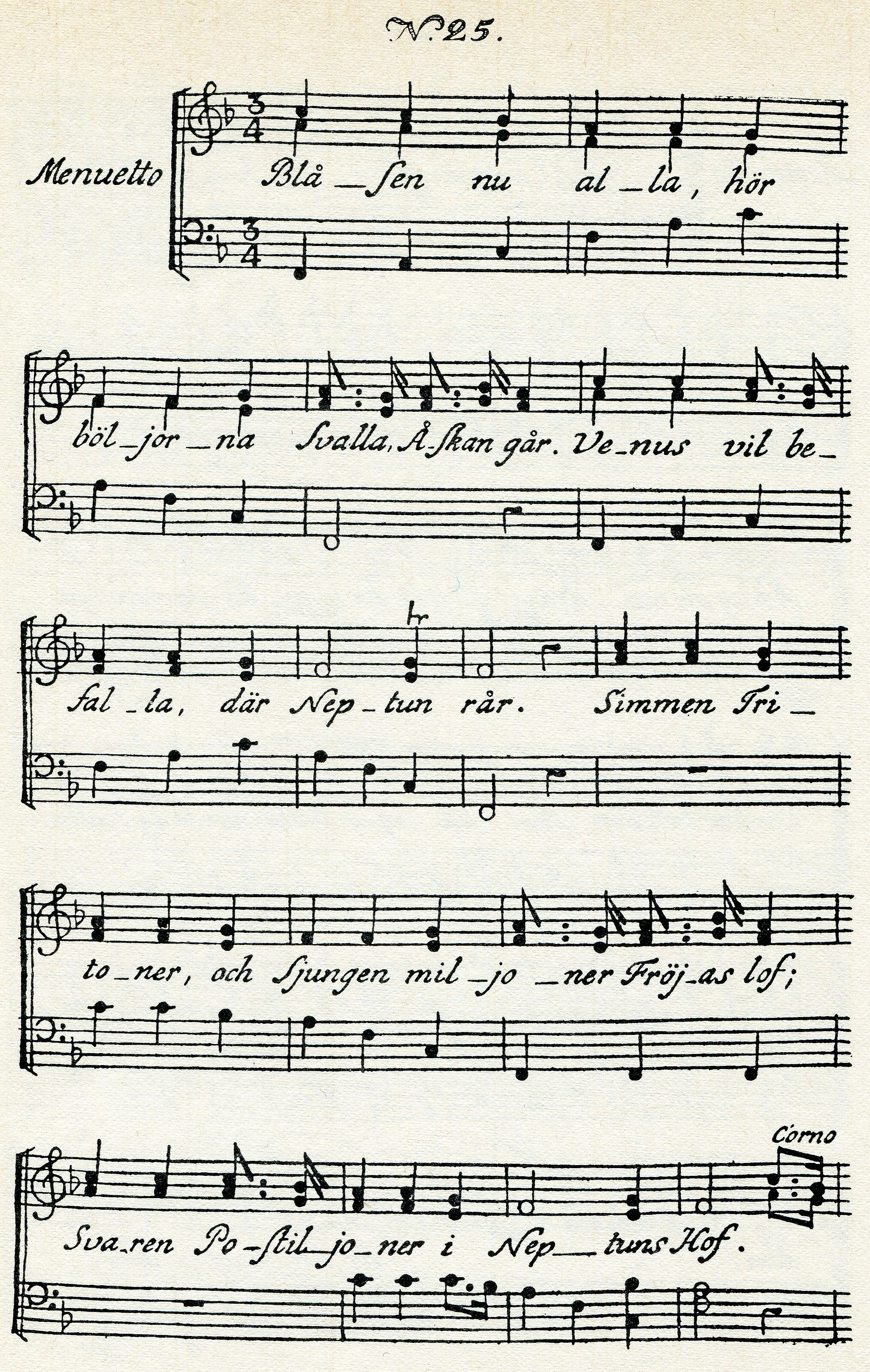 Music for Carl Michael Bellman's Rococo-themed Blåsen nu alla, one of his 1790 Fredman's Epistles.